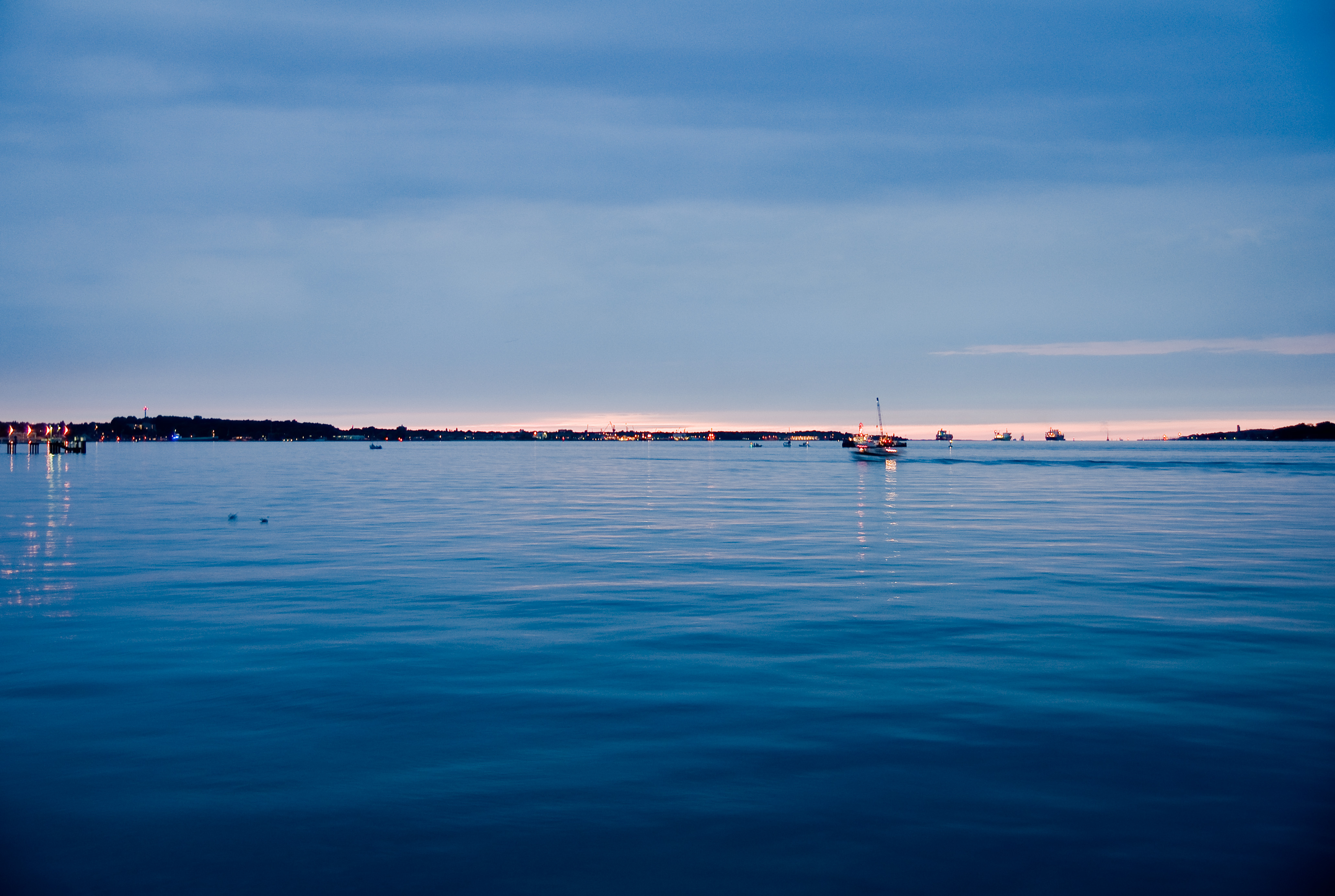 I love the night coloring of this shot. Its rather blurry, because i didn't have my tripod with me that night. View across Kiel Fjord/ Kiel harbor towards the North: at 21st of Juni the sun is in the night but a bit beneath the horizon. If the weather is clear even at 0.00 o'clock one can see a bit of light in the North. At the North horizon on the right hand side you can see the Marineehrenmal Laboe (Laboe Naval Memorial).